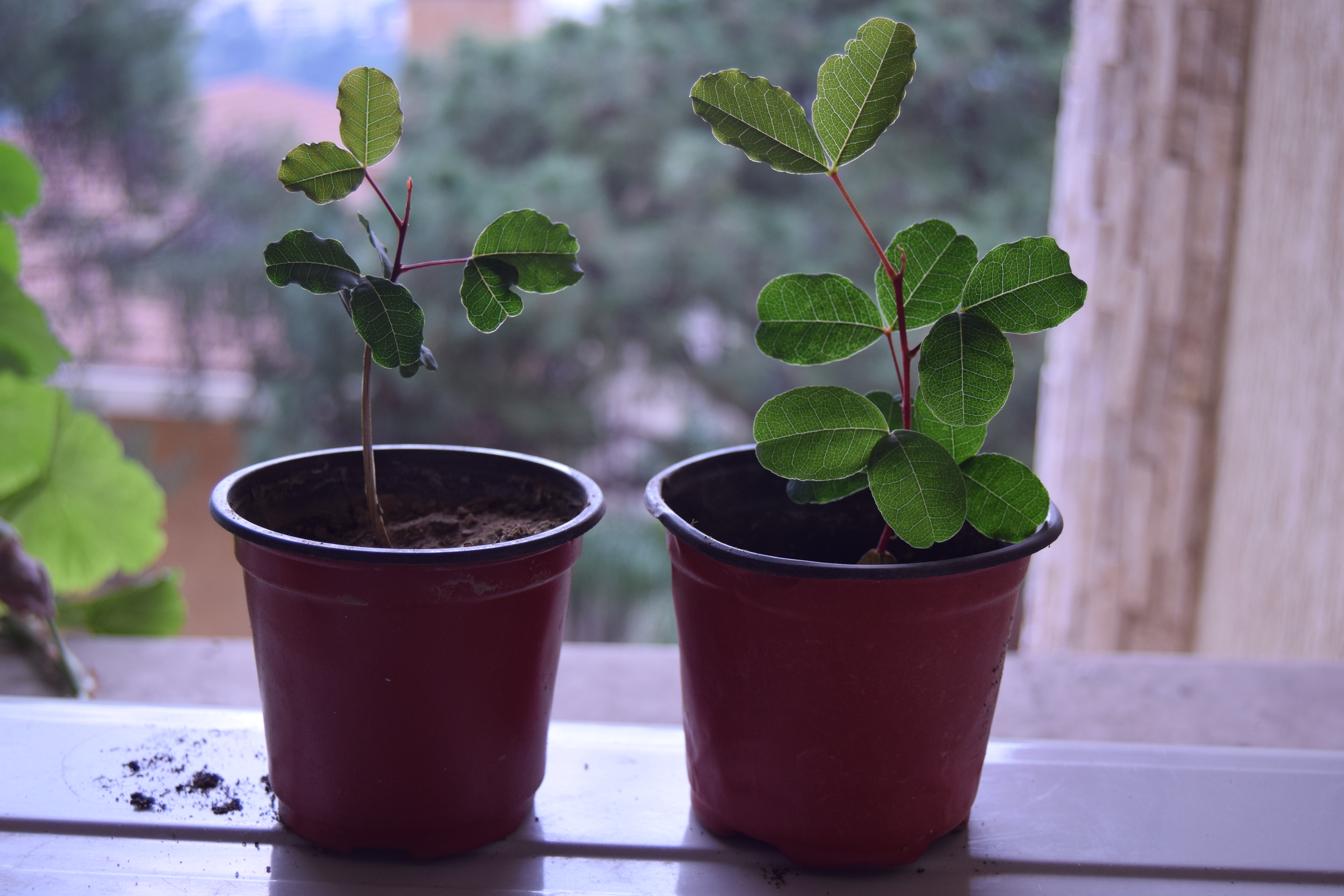 A comparison of the growth rate of two carob seedlings planted in a compost-sand mix (right) and in sand alone (left). The compost seems to have provided a lot of support for growth. The seedlings were started from seeds at the same time and have been put in the same weather conditions. Note: this is not a fully controlled experiment.